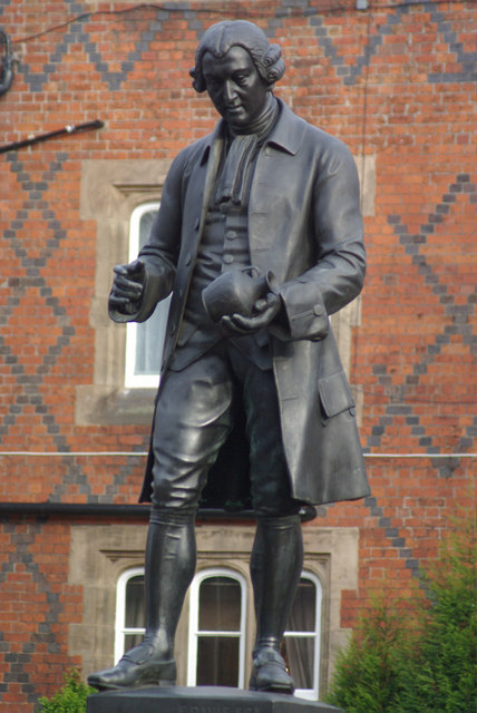 Josiah Wedgwood This statue of Josiah Wedgwood - whose name will be forever associated with the Potteries - stands outside the North Stafford Hotel in Winton Square, opposite the station. The artist was by Edward Davis and it was erected in 1863.